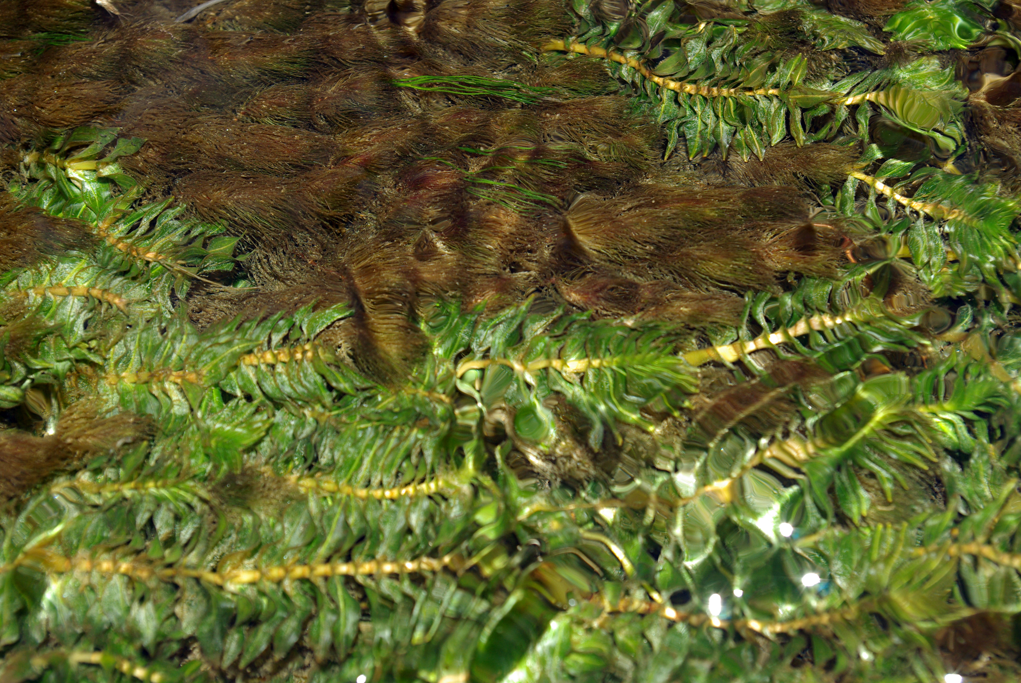 Groenlandia densa and Myriophyllum spicatum, river Porma, León (Spain)